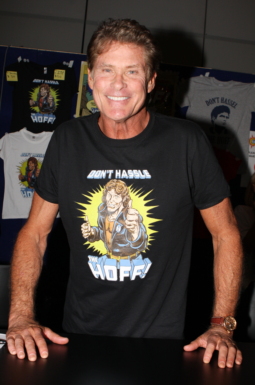 David ‘the Hoff’ Hasselhoff